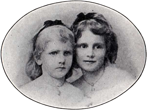 Early photo of children of American poet Frances Sargent Osgood.